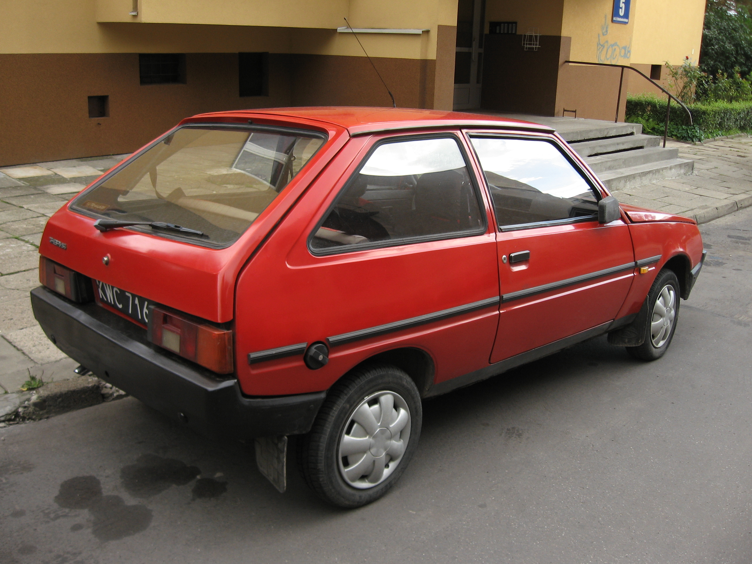 ZAZ 1102 Tavria car in Kraków, Poland.